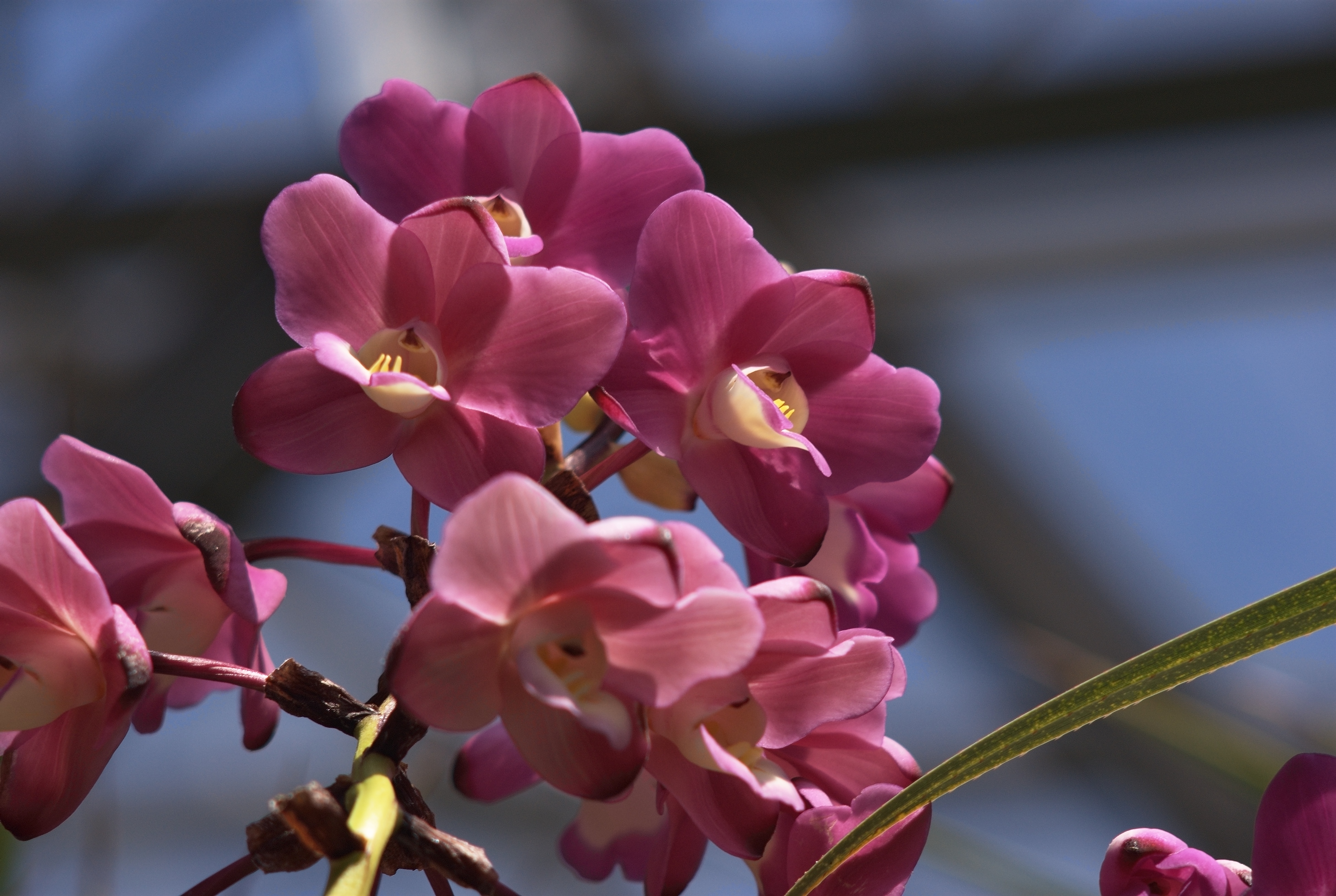 Eulophiella roempleriana